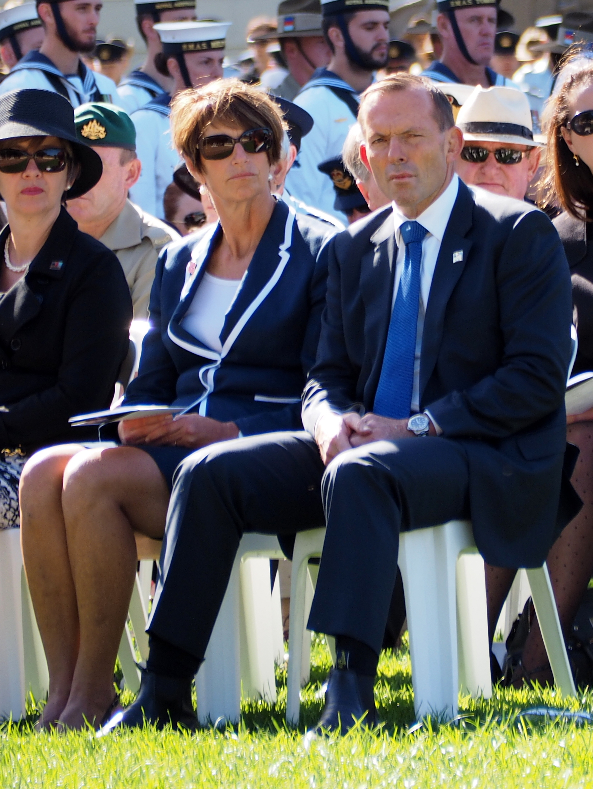 Margie Abbott and Tony Abbott at the Canberra Operation Slipper Welcome Home Ceremony